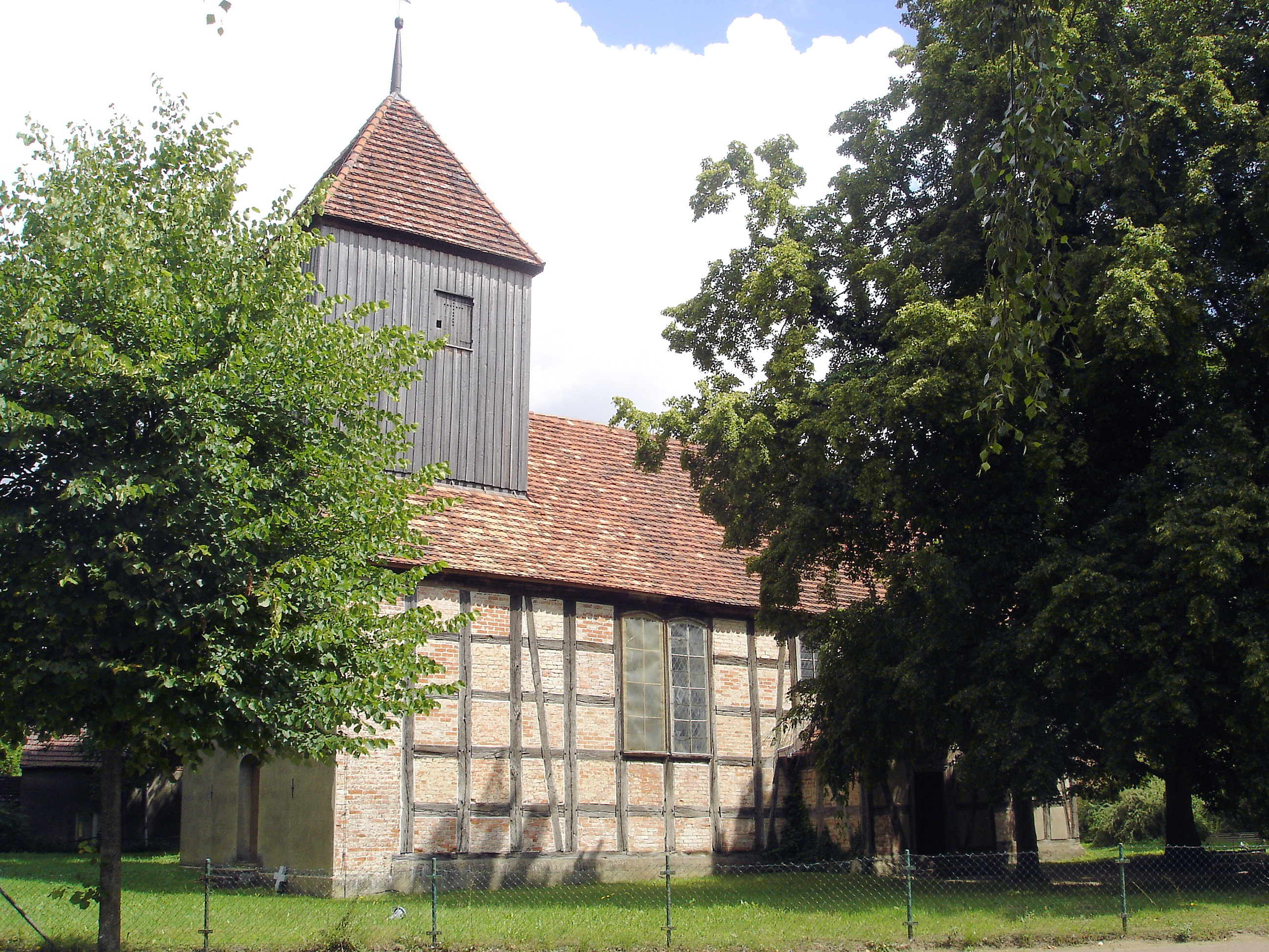 Church in Lärz, Mecklenburg, Germany